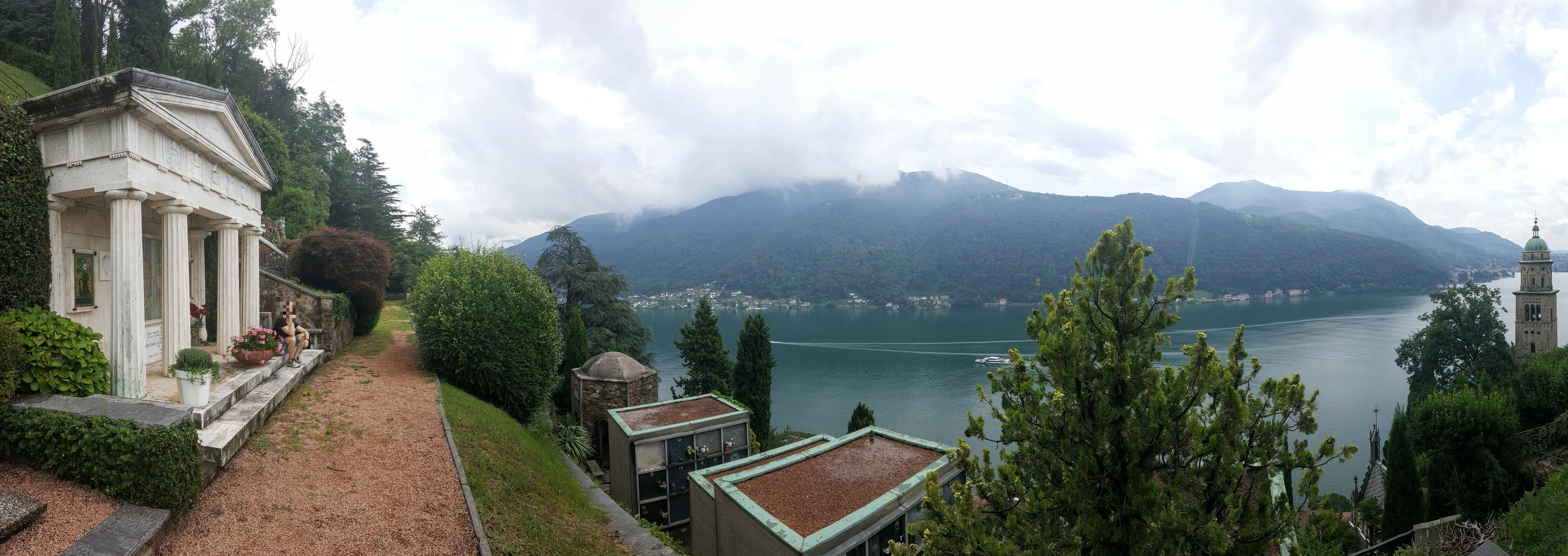 Veikko Aaltona grave